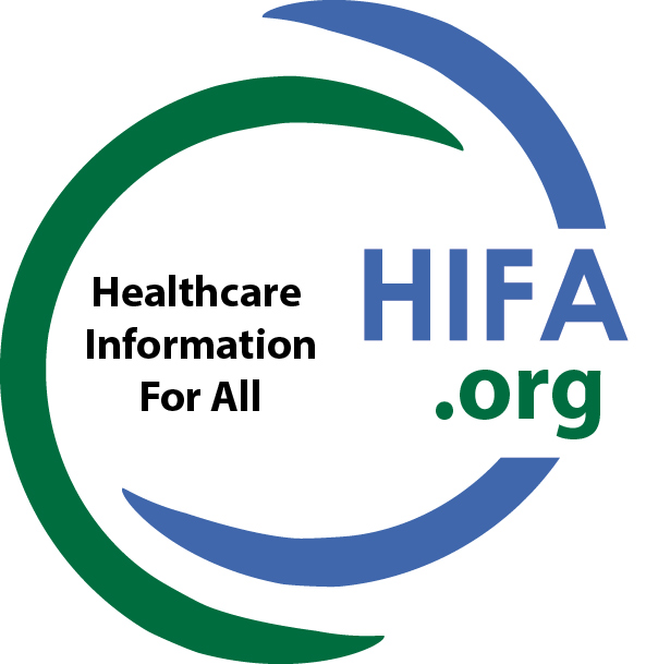 HIFA logo